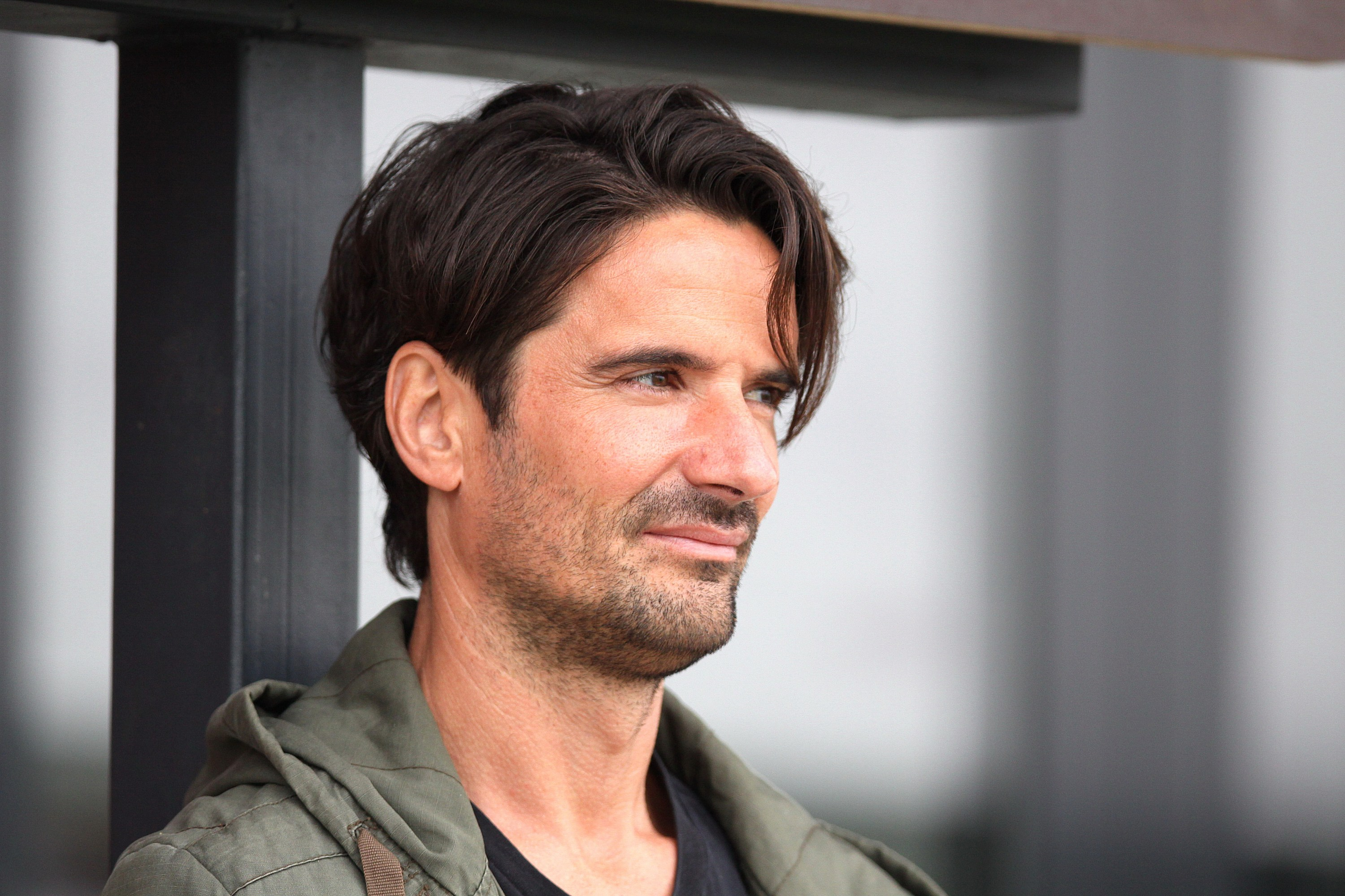 Enrico Kulovits (coach of SV Eltendorf).